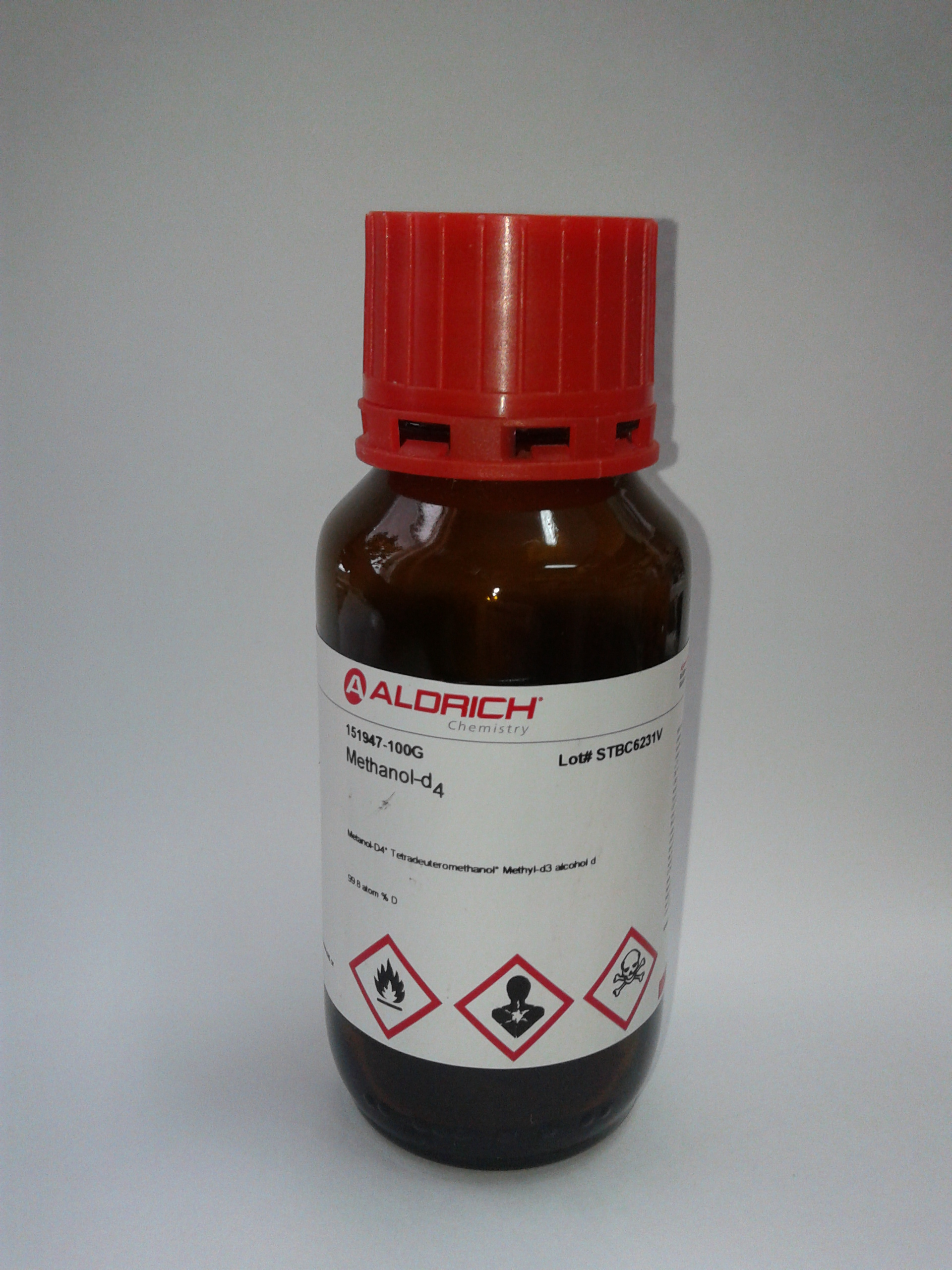 GHS Label on methanol-d4